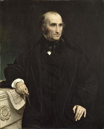 Portrait of Charles Benvignat, oil painting in the Palais des Beaux-Arts de Lille